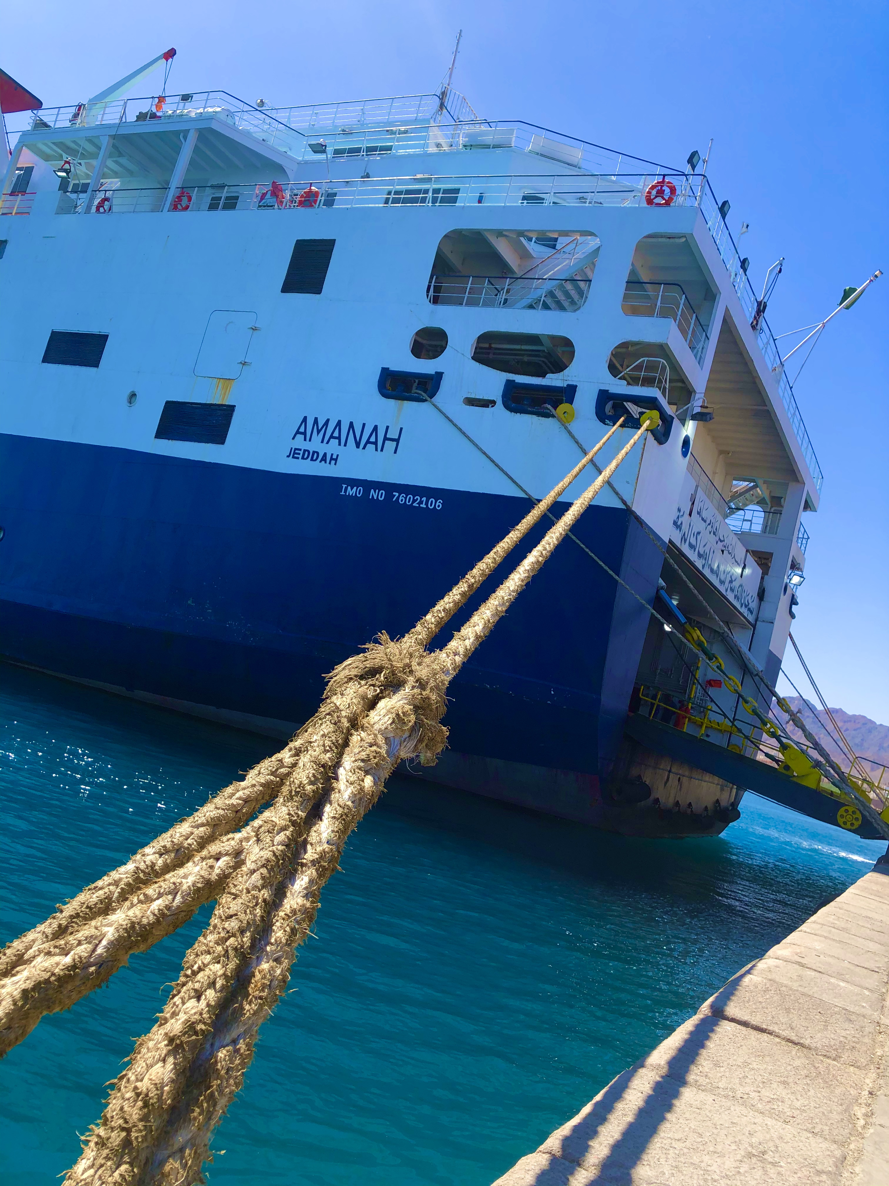 This is an image with the theme "Africa on the Move or Transport" from: Egypt